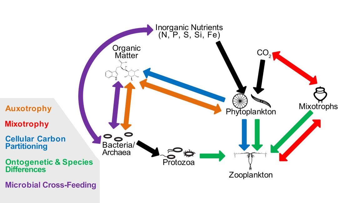 The cryptic interactions described here affect many areas of the classic marine food web. This figure illustrates the material fluxes, populations, and molecular pools that are impacted by the five cryptic interactions discussed (red: mixotrophy; green: ontogenetic and species differences; purple: microbial cross‐feeding; orange: auxotrophy; blue: cellular carbon partitioning). In fact, these interactions may have synergistic effects as the regions of the food web that they impact overlap. For example, cellular carbon partition in phytoplankton may affect both downstream pools of organic matter utilized in microbial cross‐feeding and exchanged in cases of auxotrophy, as well as prey selection based on ontogenetic and species differences.